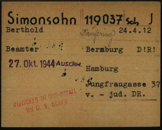 Registration card of Berthold Simonsohn as a prisoner at Dachau Nazi Concentration Camp. “J” (top right corner) and “jud.” (bottom right) identify Simonsohn as a Jew. Red stamp means he was liberated by the U. S. Army from a Dachau sub-camp (out-detail).